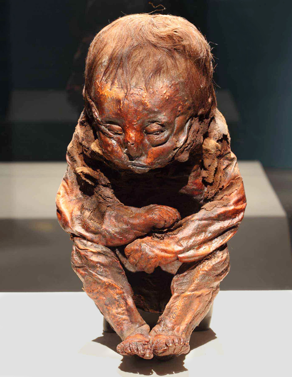 Detmold Child at the Mummies of the World Exhibition